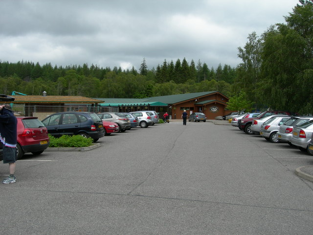 Falls of Shin Visitor Centre. This is a northern outpost of Harrods! It's owned by Mr Al-Fayed, and is being developed into a tourist destination, providing new employment opportunites for the local population. Here is the website.